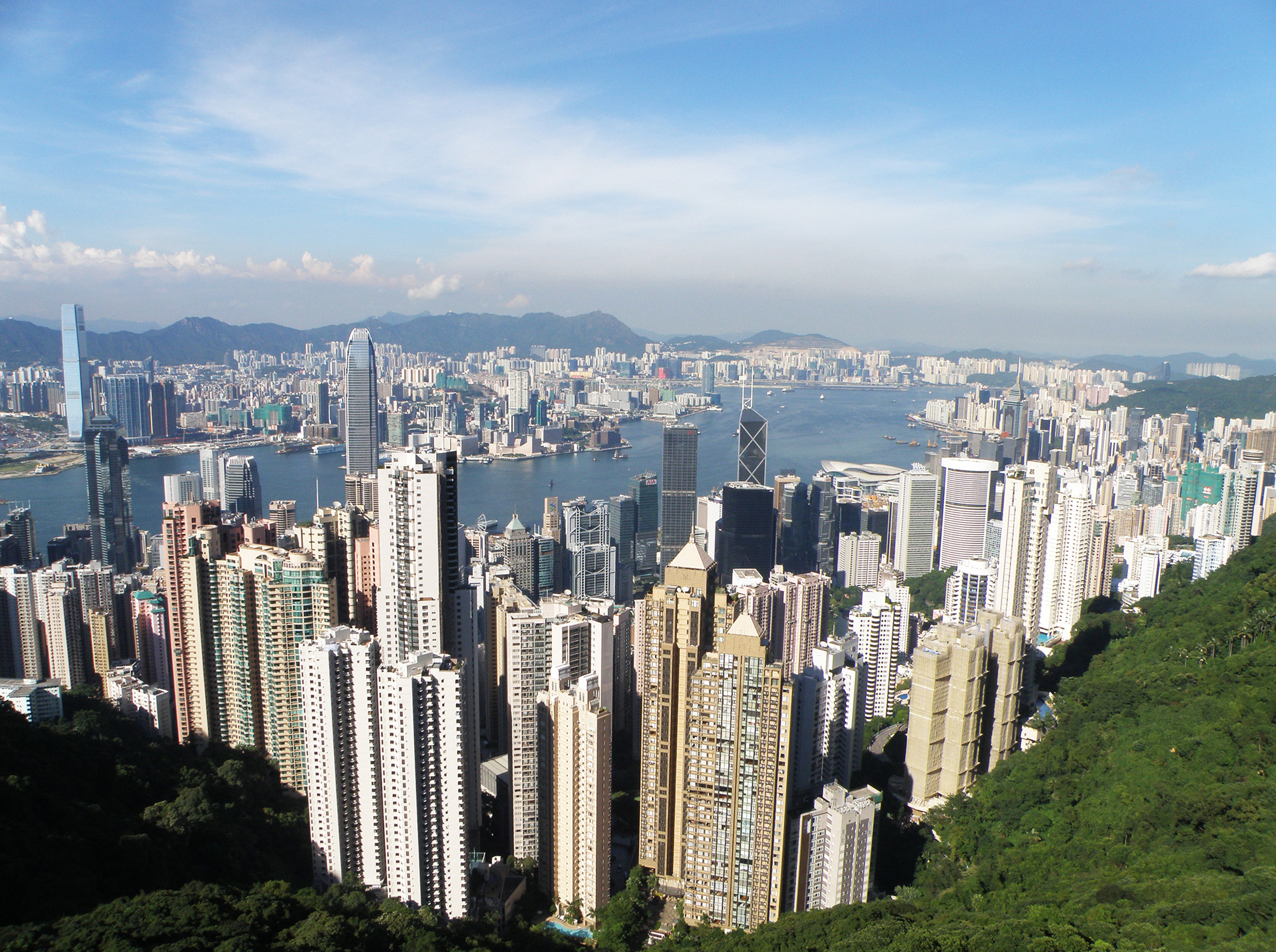 Hong Kong Island north coast and Kowloon, Hong Kong